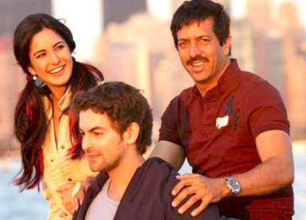 Katrina Kaif, Neil Nitin Mukesh and Kabir Khan shooting for New York